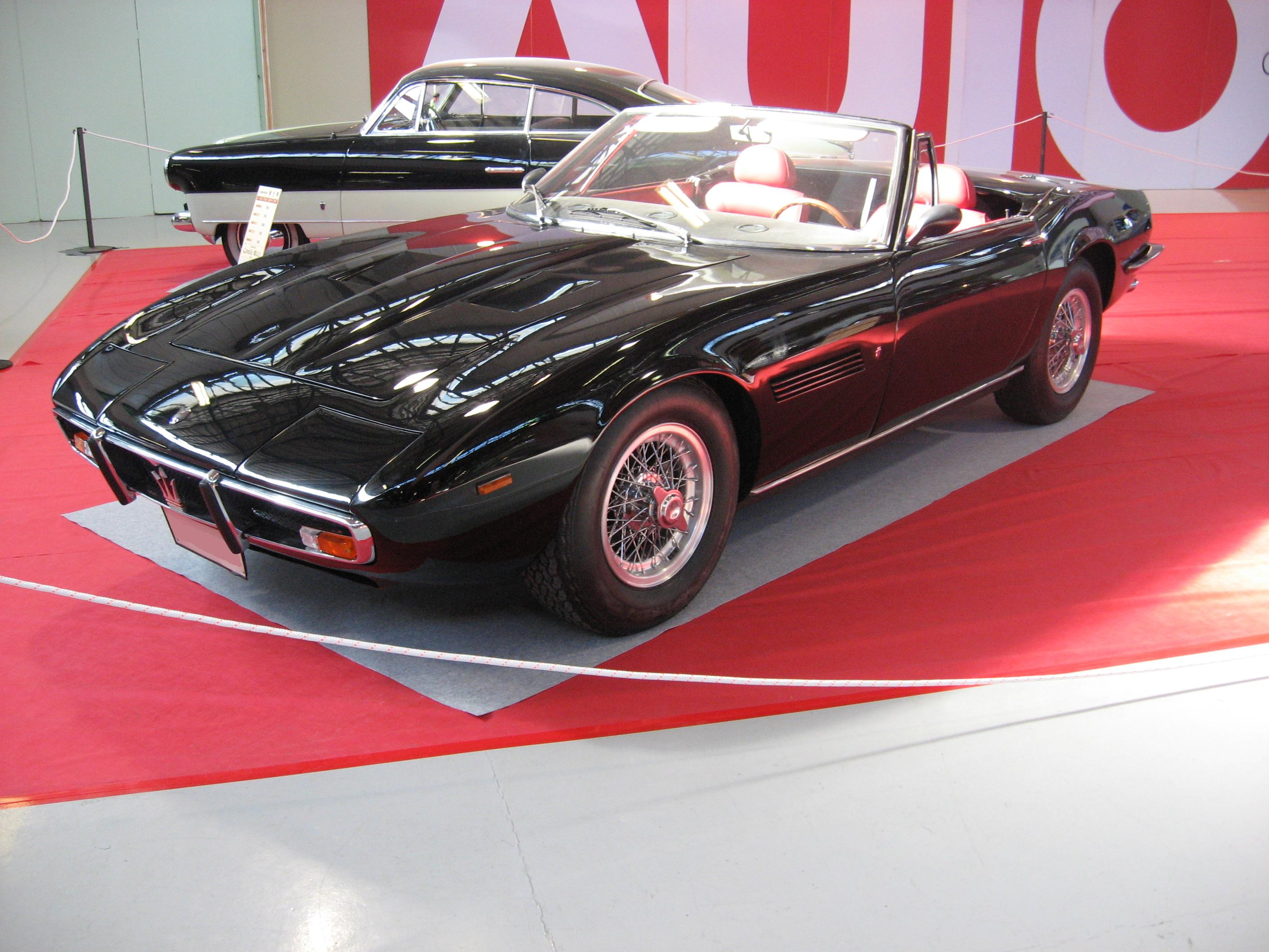 Subject: Maserati Ghibli Spider Author: Luc106 Date: 18th march 2007 Place: Forlì (Italy) Event: Old Time Show I release all rights in the public domain.